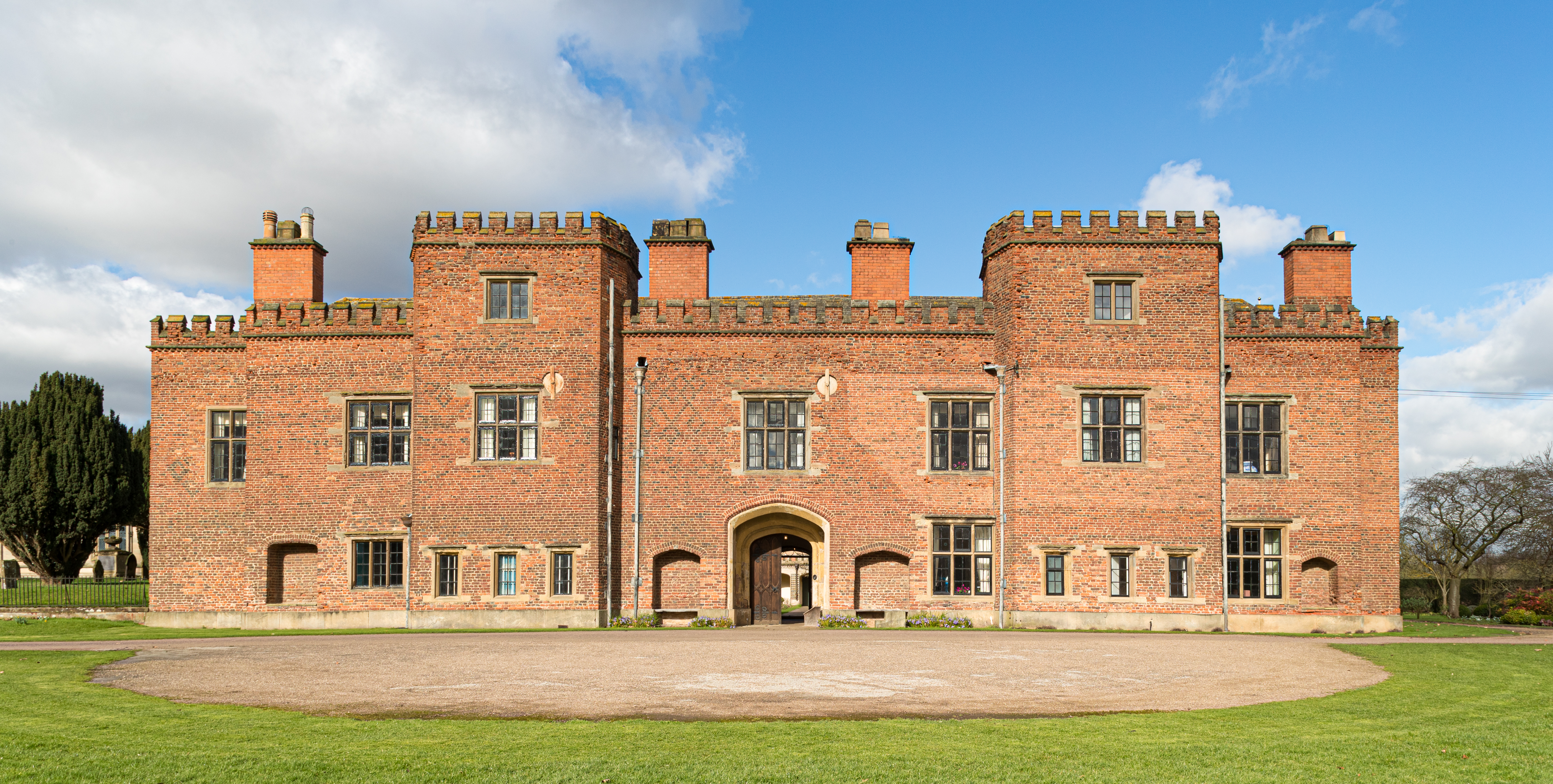 Holme Pierrepont Hall, Nottingham, UK Wikidata has entry Q5883398 with data related to this item.